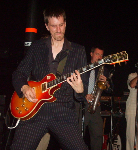 A picture of Cherry Poppin' Daddies guitarist Jason Moss, taken by myself in 2007.